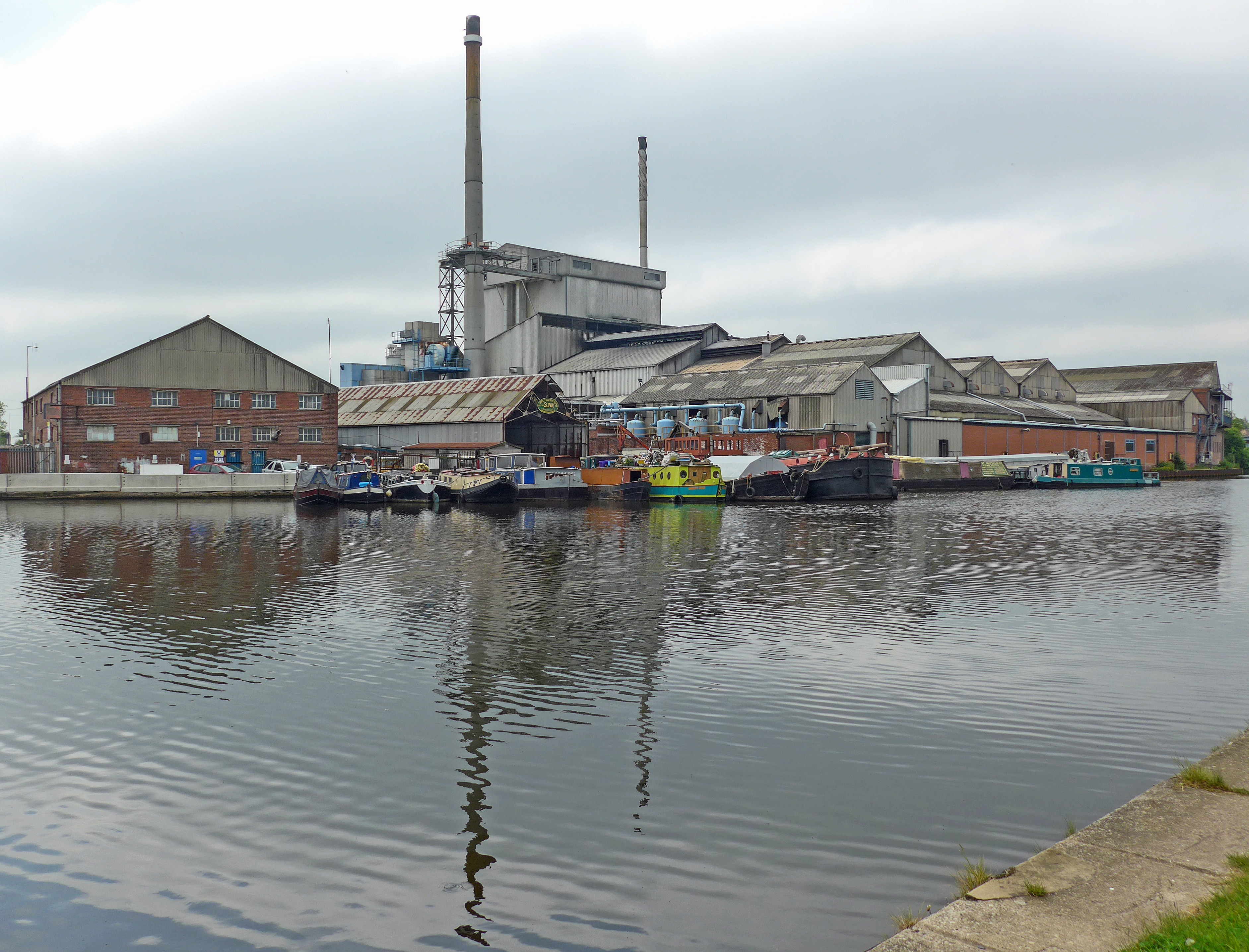 Knottingley